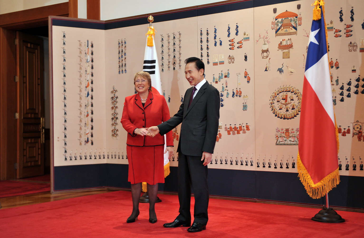 President Lee and visiting Chilean President Michelle Bachelet Jeria held a summit meeting at Lee's office on Nov. 11